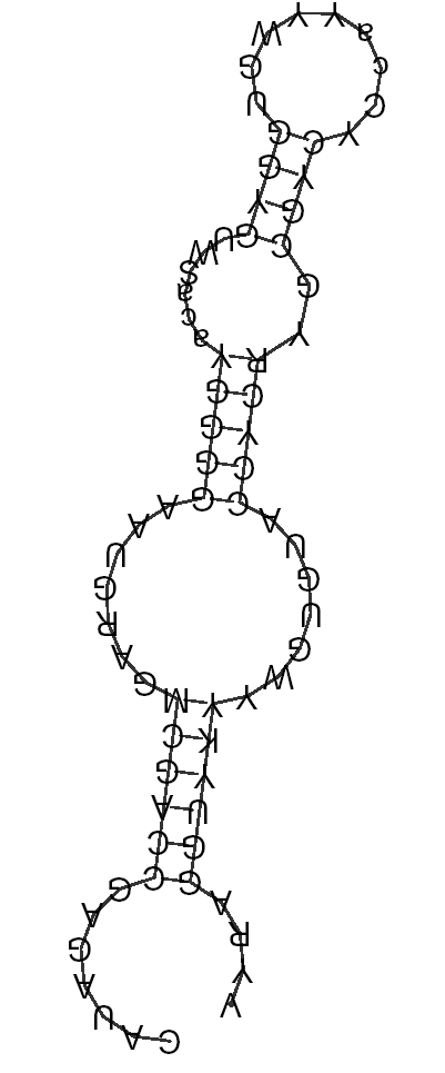 RNA secondary structure of TB9Cs4H1 generated by the WAR server( It is the consensus structure from several Trypansomatid species - Leishmania braziliensis, Trypanosoma brucei, Trypanosoma brucei gambiense, Trypanosoma cruzi, Trypanosoma congolense, Trypansoma vivax --with some manual editing and redrawing of the structure with RNAplot from the Vienna RNA package